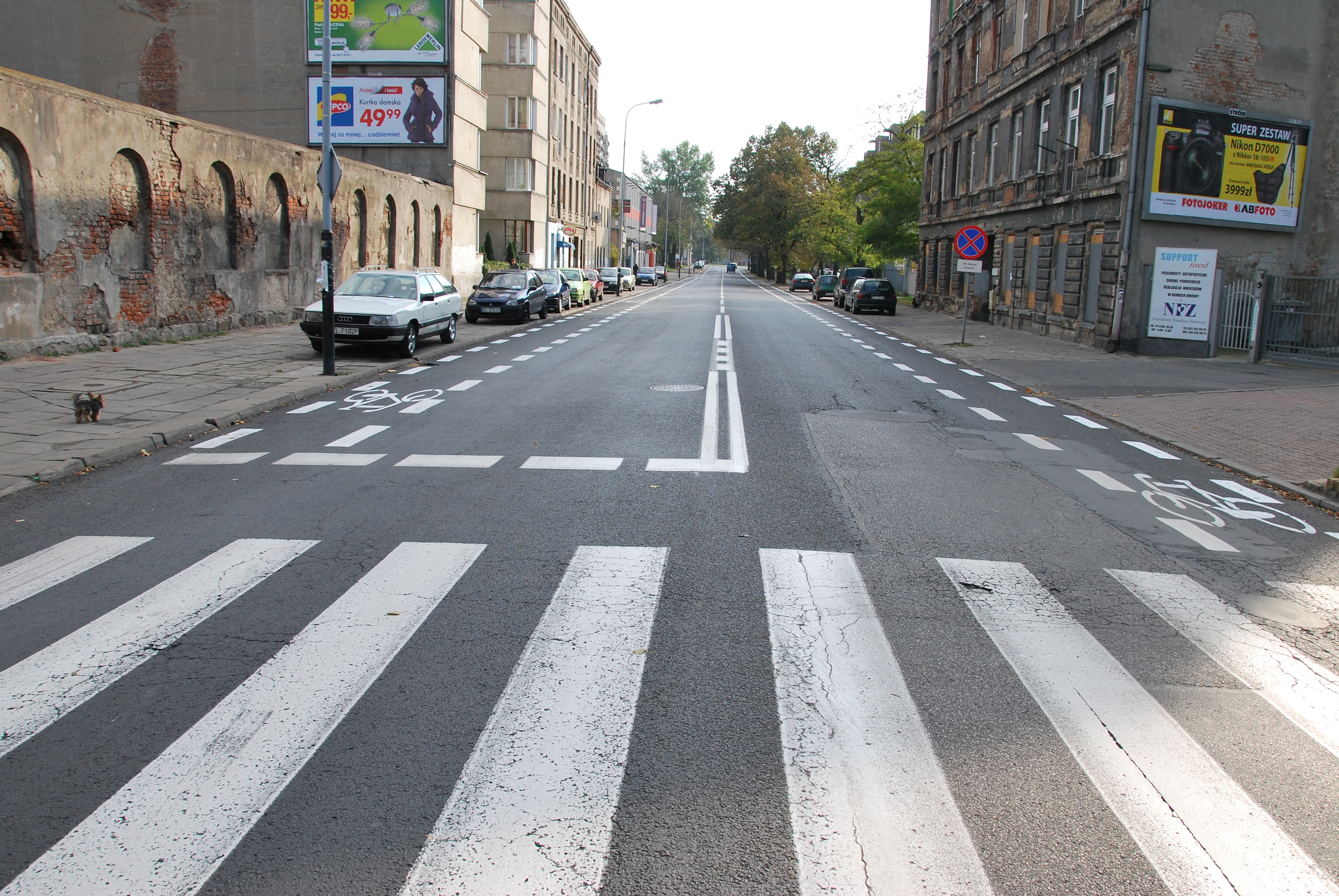 Double bike lane, Łódź Żeligowskiego Street